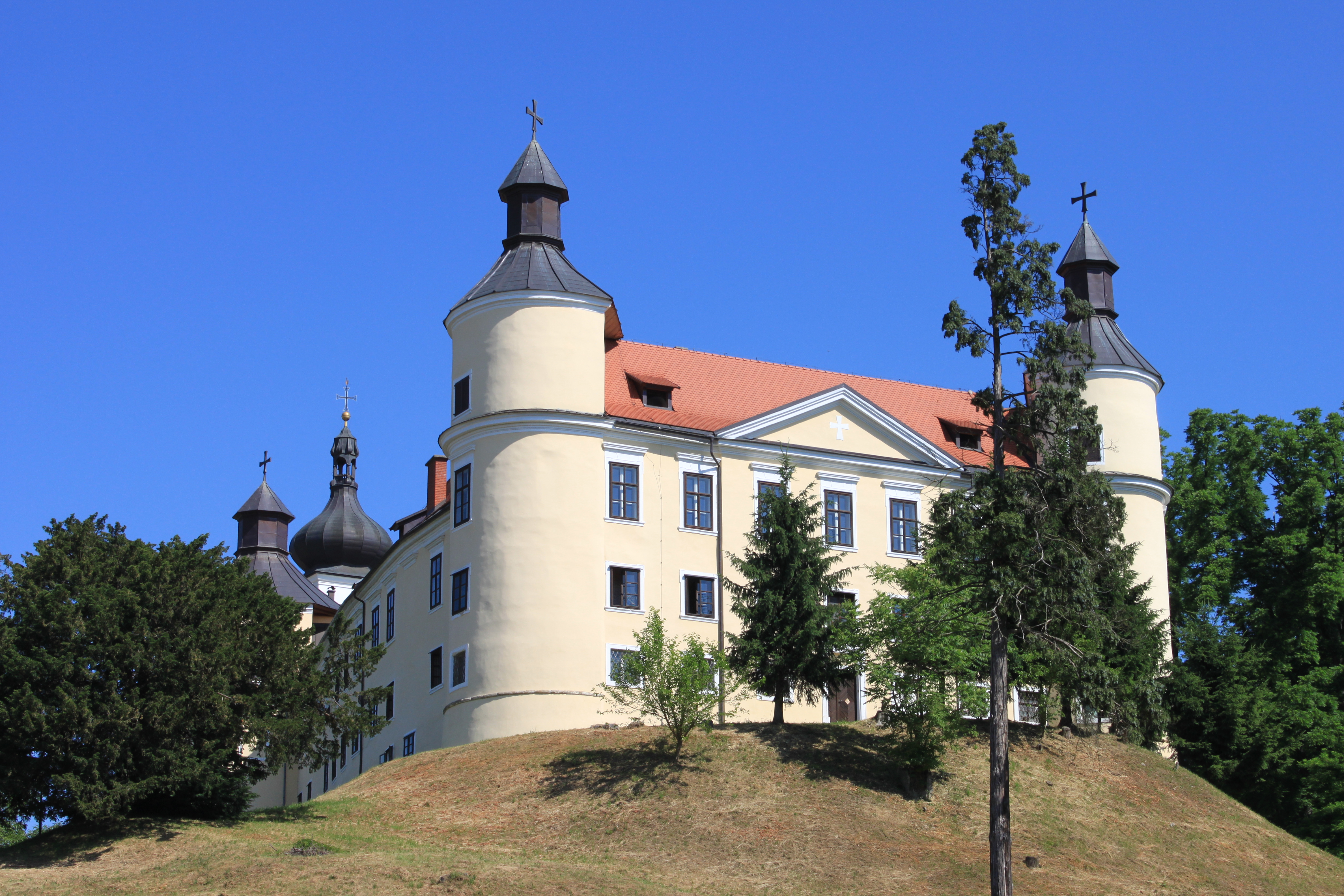 Velika Nedelja (German: Großsonntag in the meaning of Easter Sunday); Castle Großsonntag, view to the north-westAfrikaans: Velika Nedelja (Duitse Großsonntag in die betekenis van Paas Sondag); Burg Großsonntag, Noordwes oogSlovenščina: Velika Nedelja (nemško: Großsonntag); Grad Velika Nedelja; južna stran